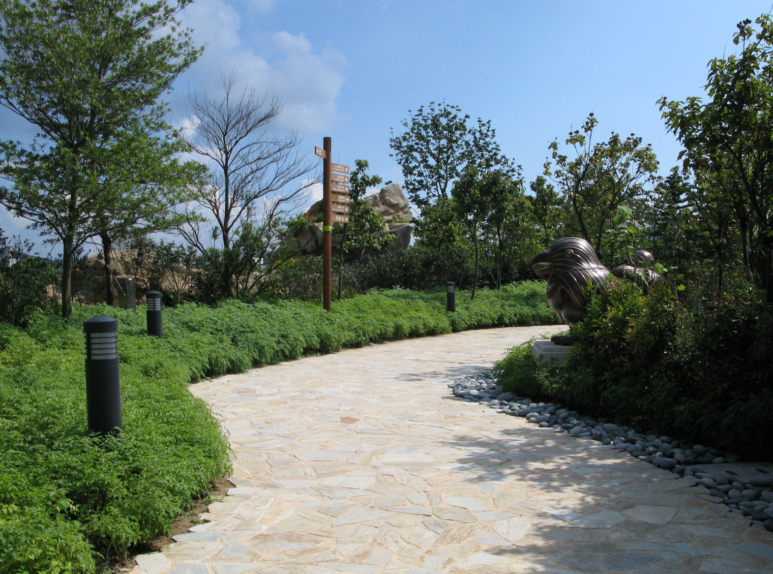 LOHAS Park The Park Four Seasons Garden